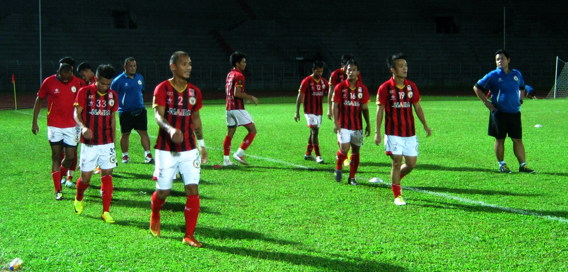 Sarawak FA players undergoing night training, circa 2103